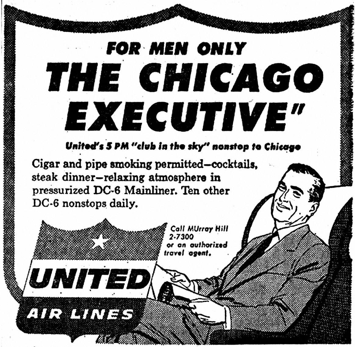 United Airlines "The Chicago Executive" newspaper display ad